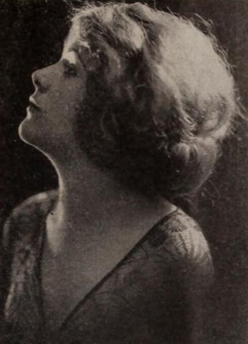 Silent film actress Katherine Spencer